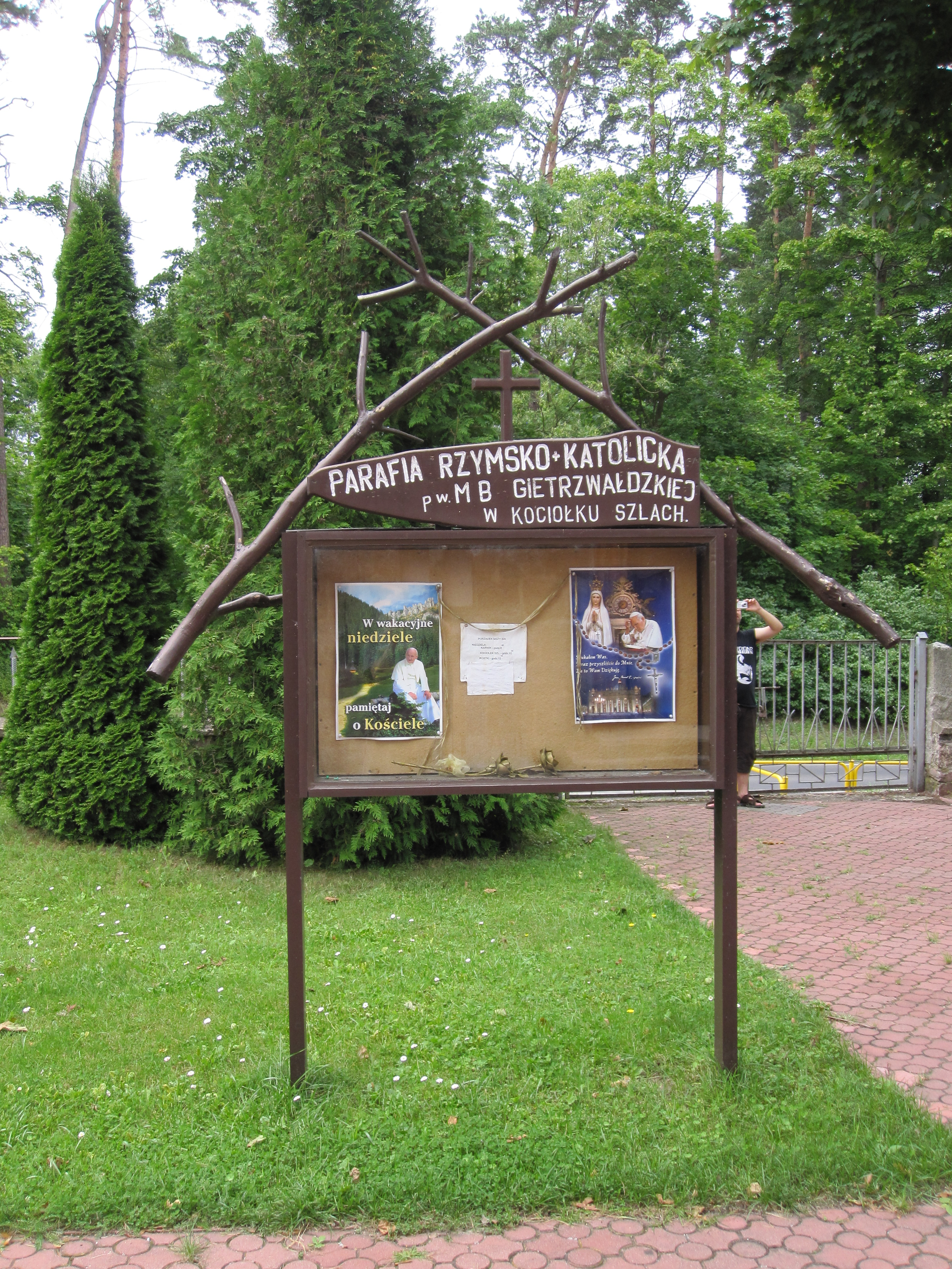 Church of Our Lady of Gietrzwałd in Kociołek Szlachecki